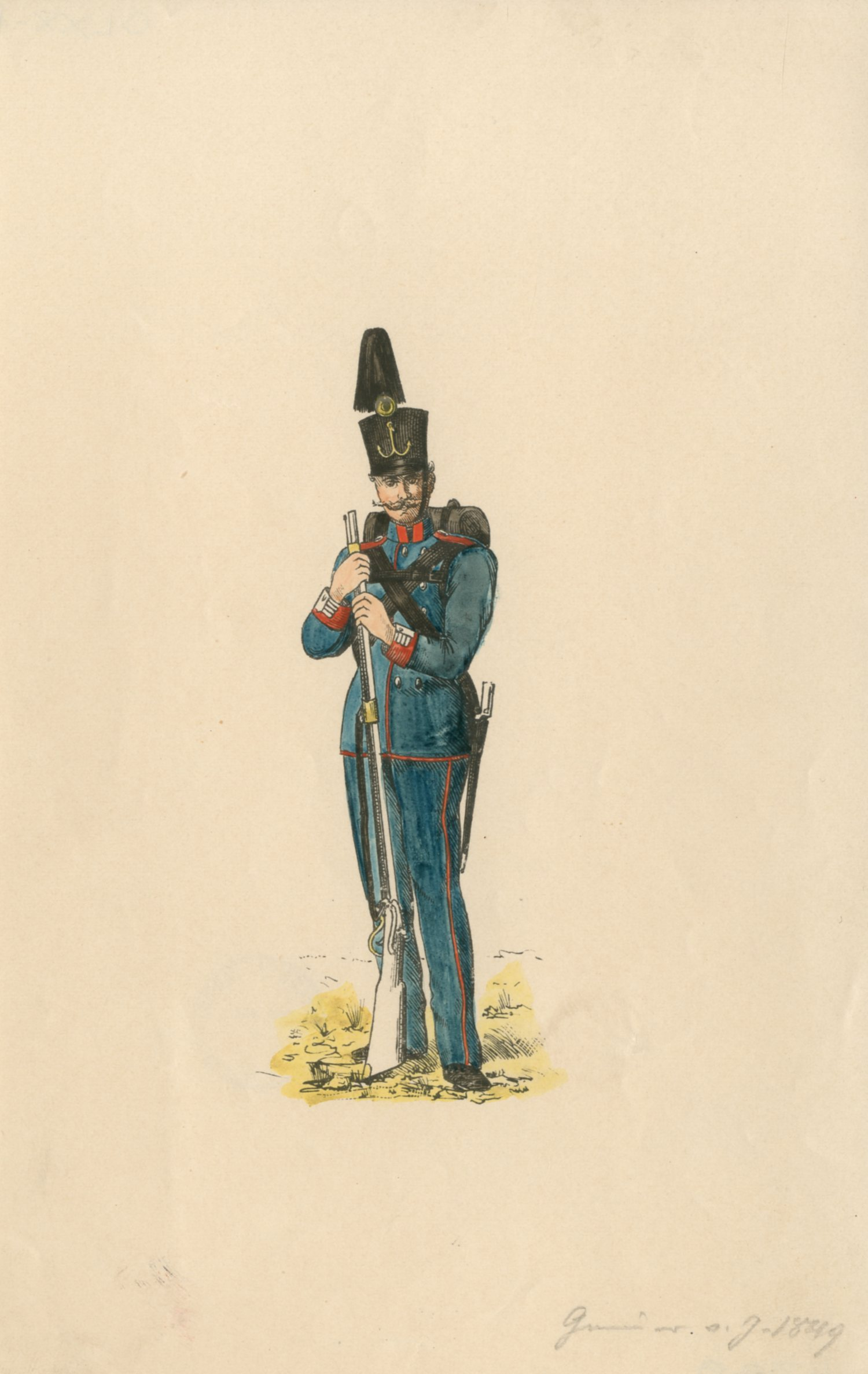 A drawing of šajkaš, member of the river flotilla troops of the Habsburg Monarchy that guarded the Danube and Sava against the Ottoman Empire (1849). Srpski (latinica): Crtež šajkaša, pripadnika rečne ratne mornarice Habsburške monarhije koja je branila granicu na Savi i Dunavu od Osmanske imperije (1849).